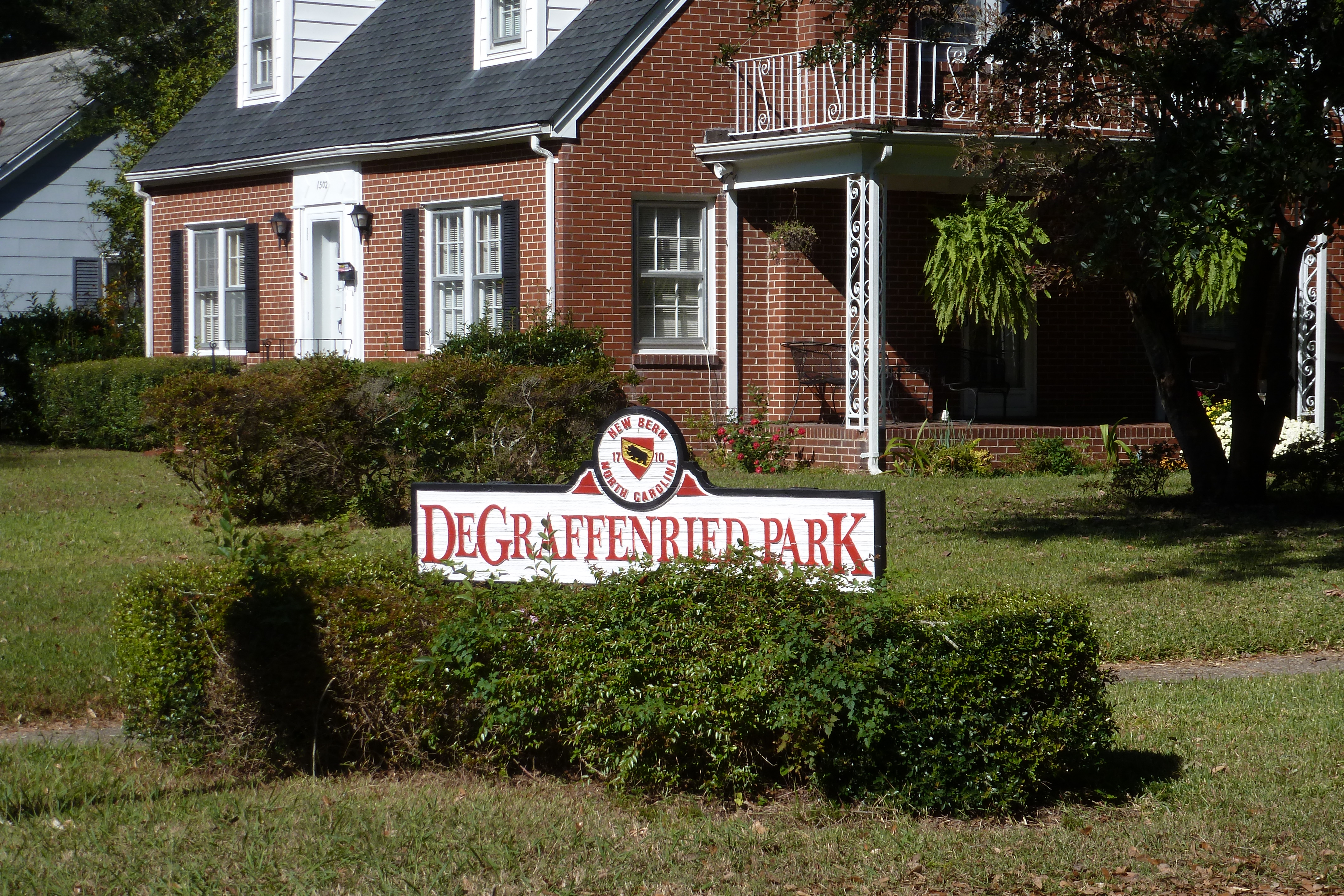 A sign at the corner of Fort Totten Drive and Trent Blvd.